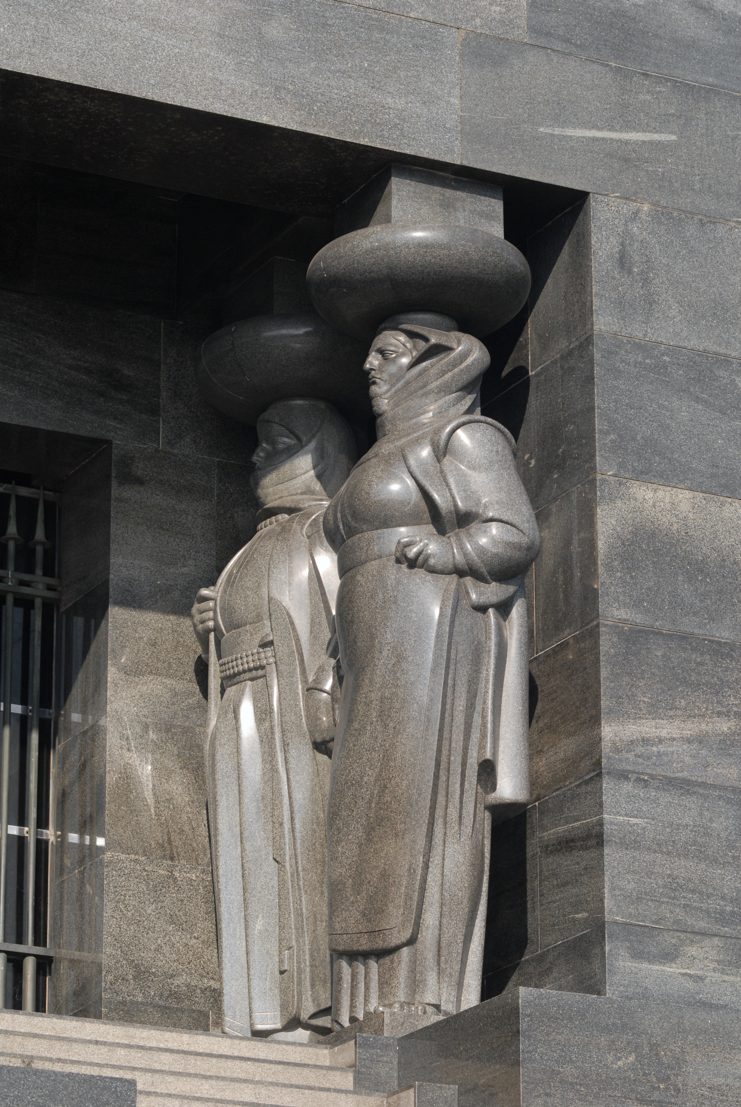 Споменик Незнаном јунаку